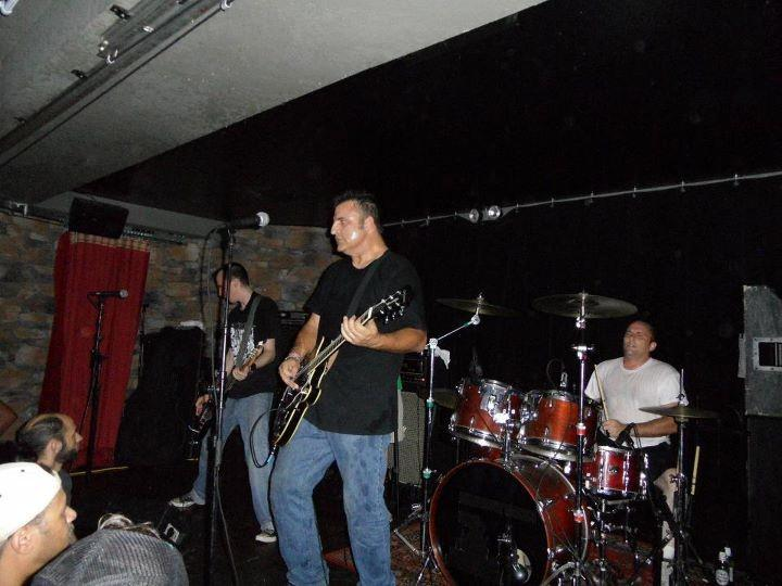 Performing at the Cobra Lounge, Chicago 8/27/2011